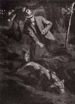 "The Sign of Four" illustrated by F.H. Townsend.